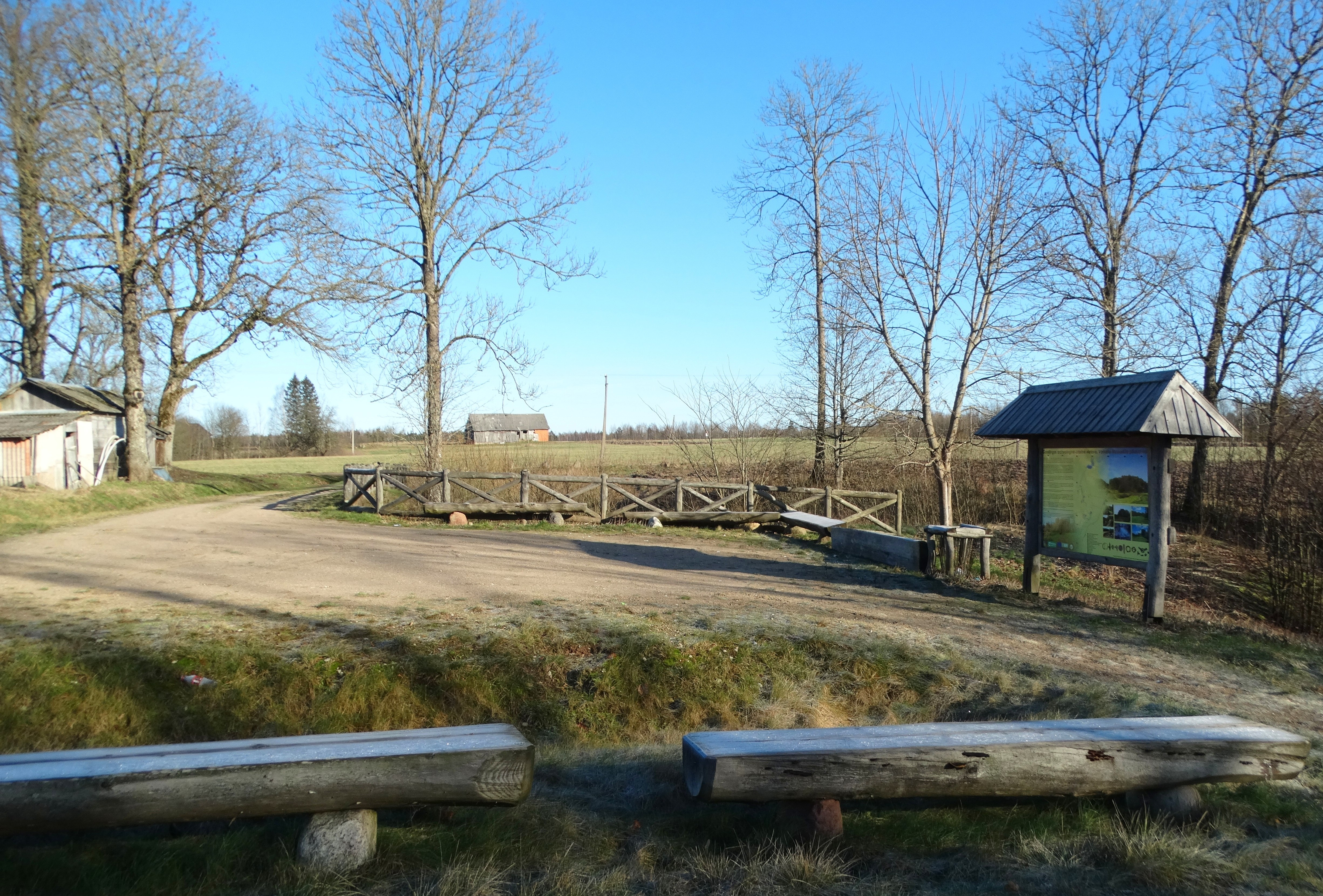 Near Varkaliai hillforts, Plungė district, Lithuania